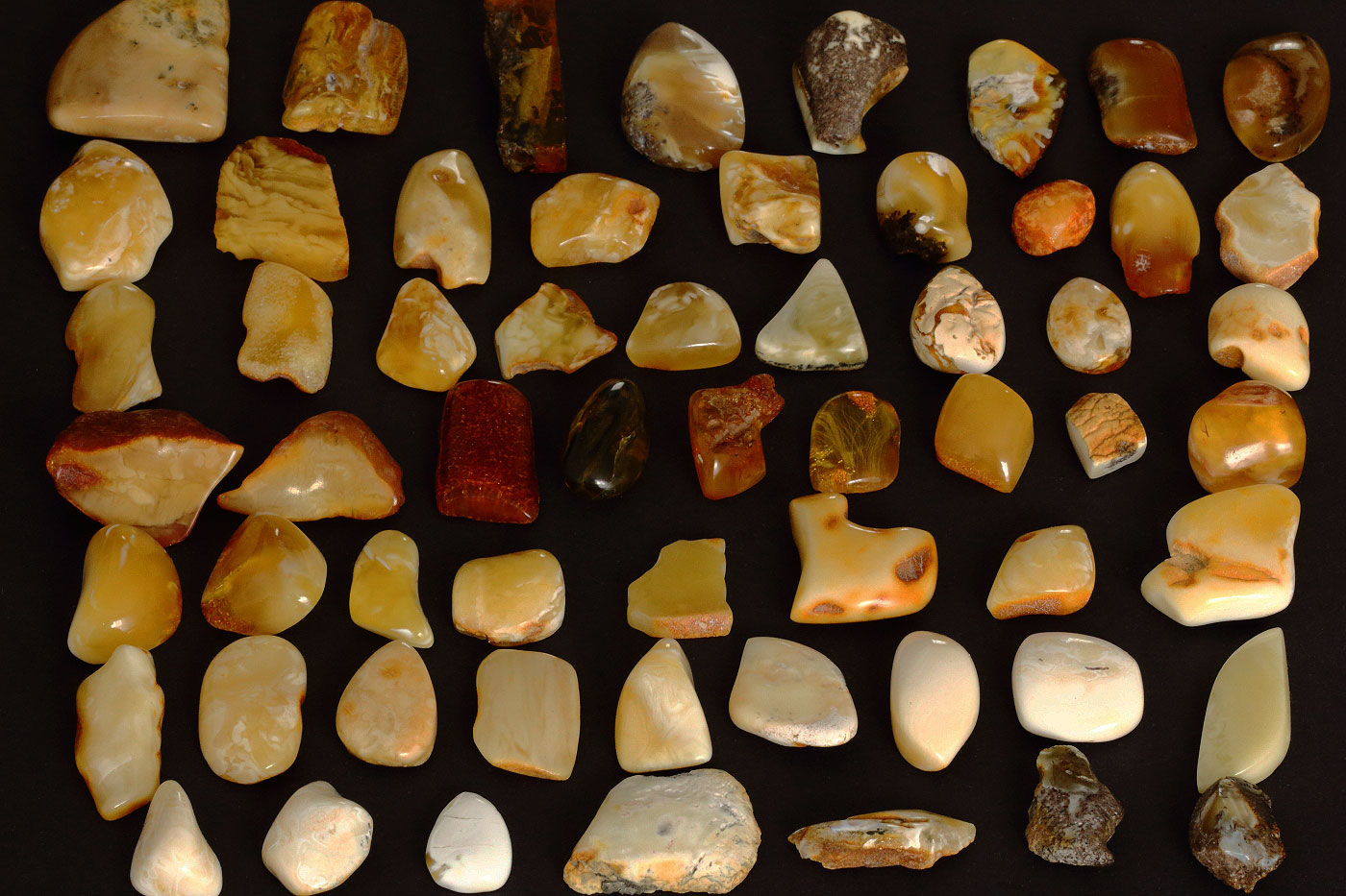 Baltic amber. Colors and varieties.